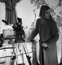 Sue de Beer on the set of Disappear Here, 2004